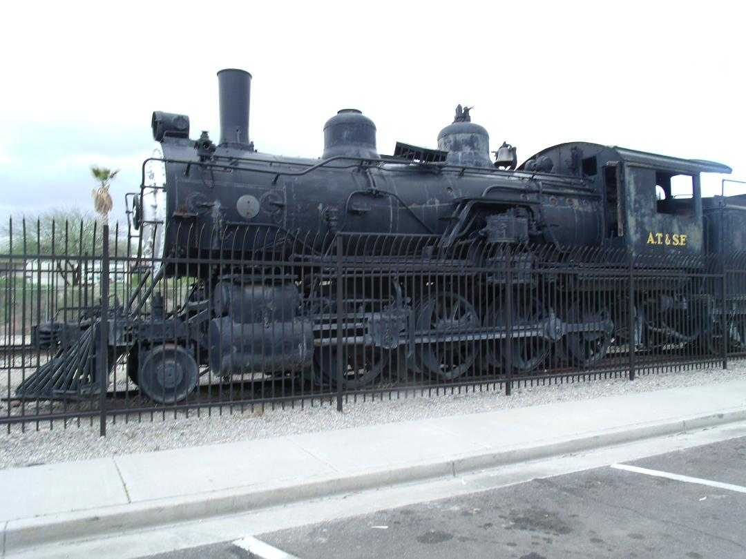 This locomotive was built around 1890 for the Atchison, Topeaka and Santa Fe Railroad. It is a Class 759, 2-8-0. When active, it was used on the main line between Chicago and the west. Engine 761 is located next to the historic Wickenburg train depot, that is now the town's visitor center.